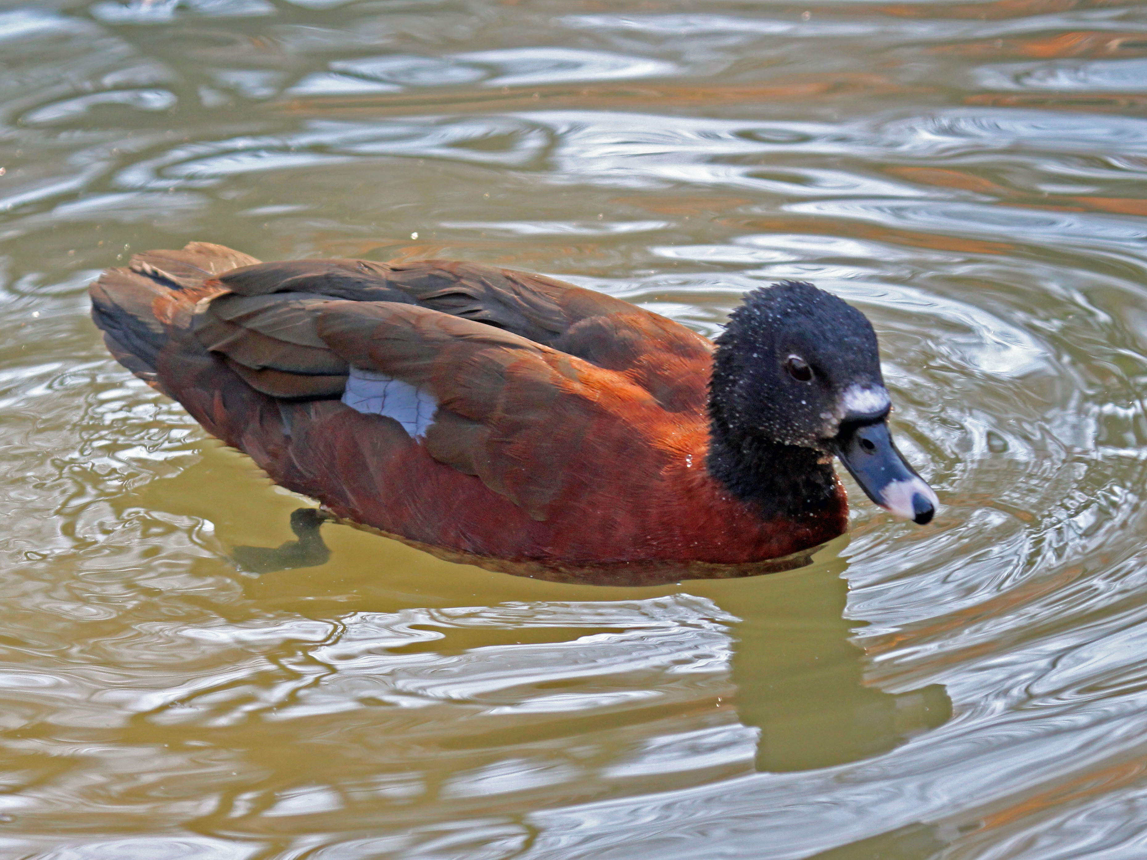 Hartlaub's Duck (Pteronetta hartlaubii)) - Sylvan Heights Waterfowl Park, Scotland Neck, North Carolina